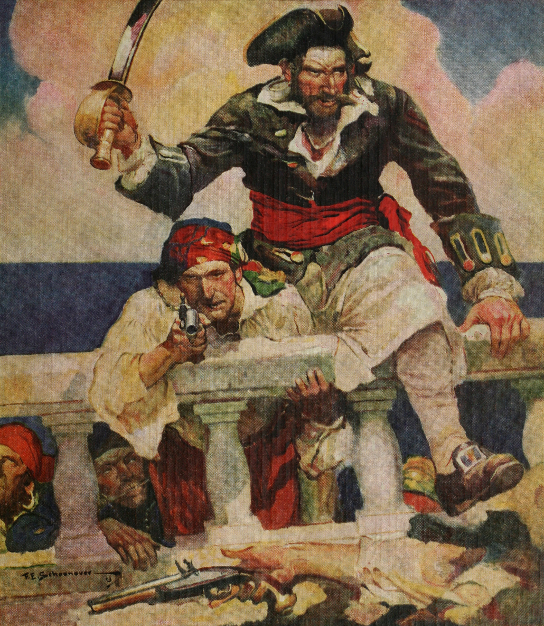 Cover of Blackbeard, Buccaneer: Blackbeard and his crew boards a ship